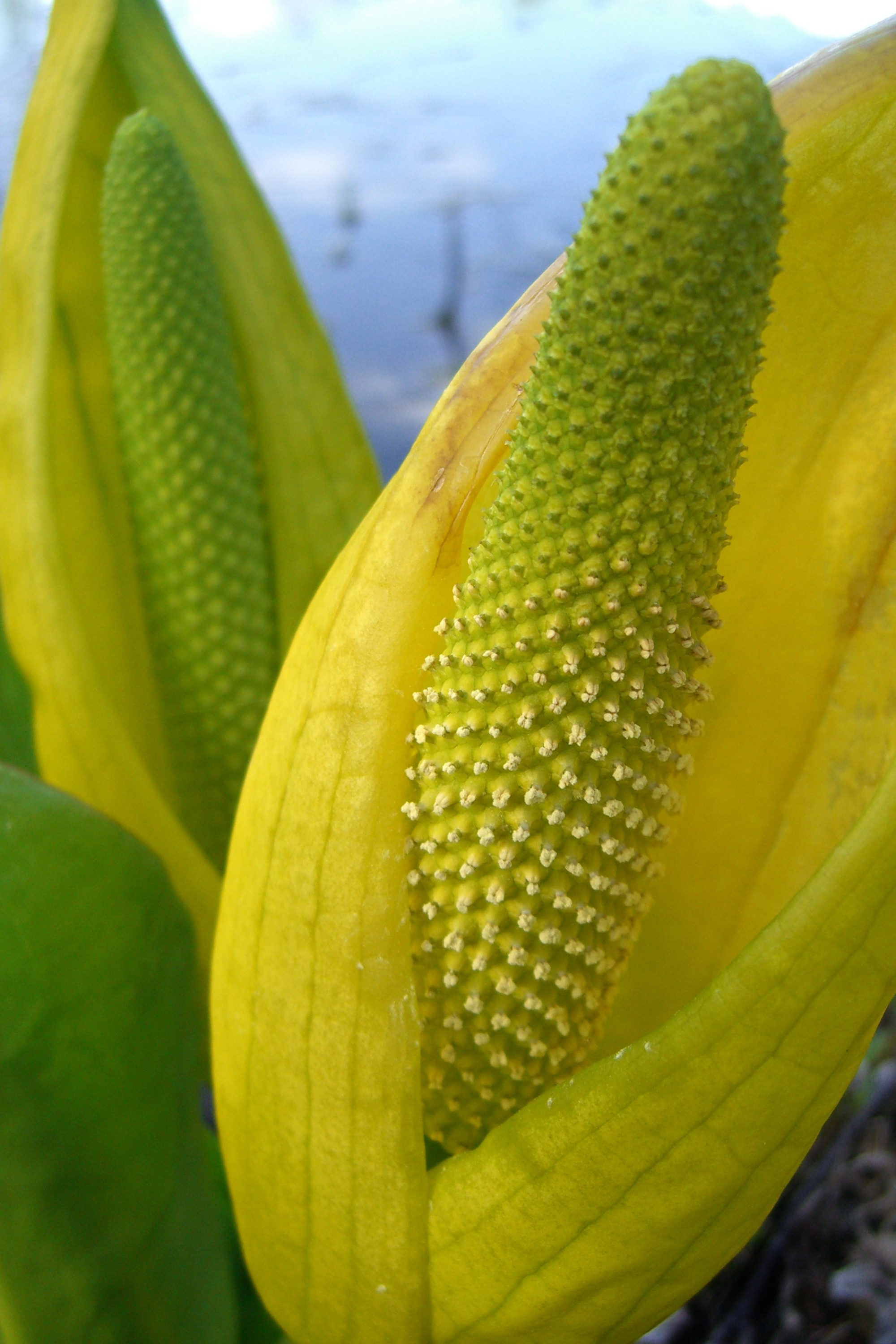 Scientific Name: Lysichitum americanum Hulten & St. John Common Name: Skunk Cabbage Certainty: positive (notes) Location: Canadian Rockies; Wells Gray Provincial Park; Edgewood Blue Date: 20080506